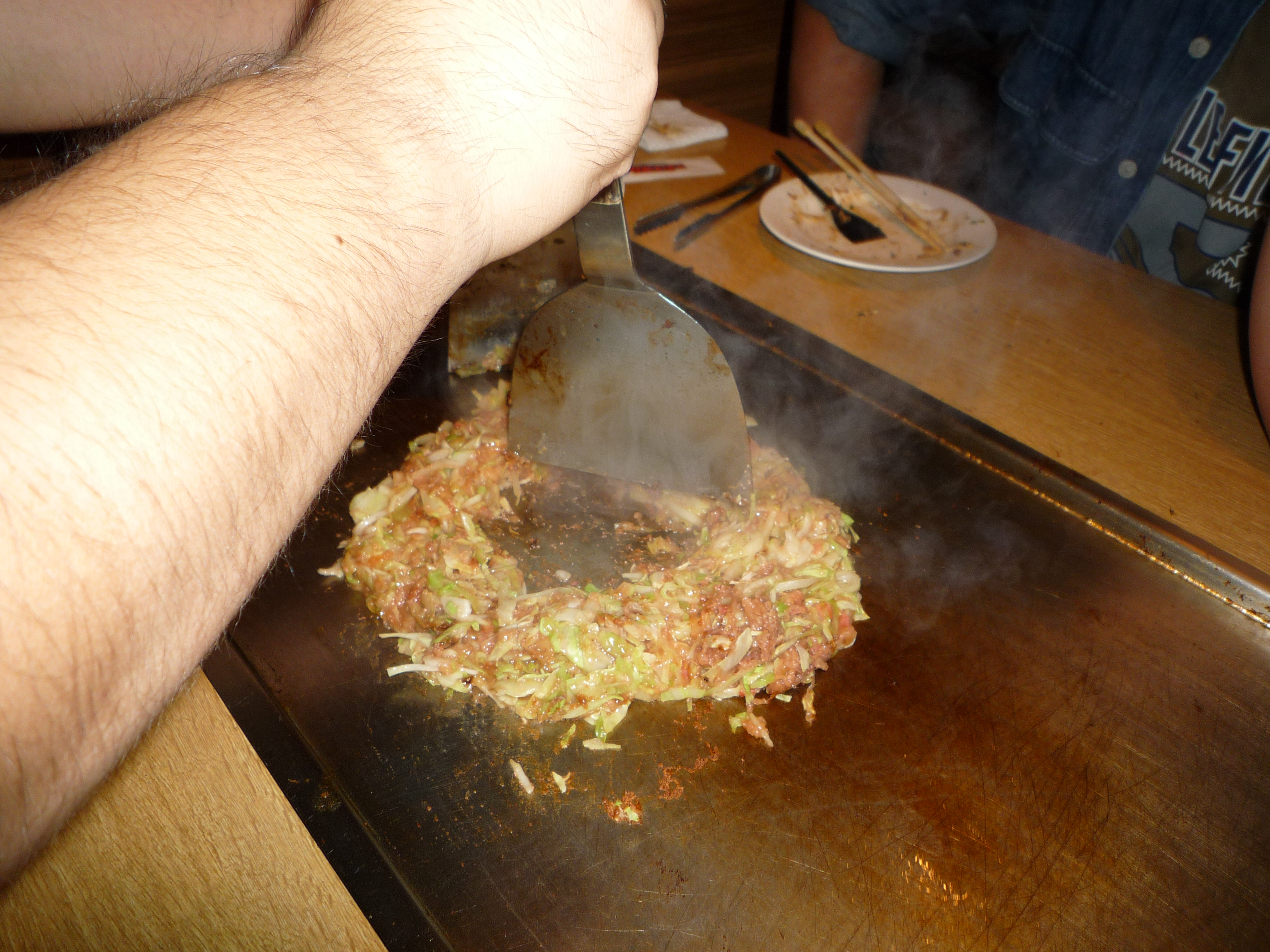 making a Monjayaki, japanese Cuisine